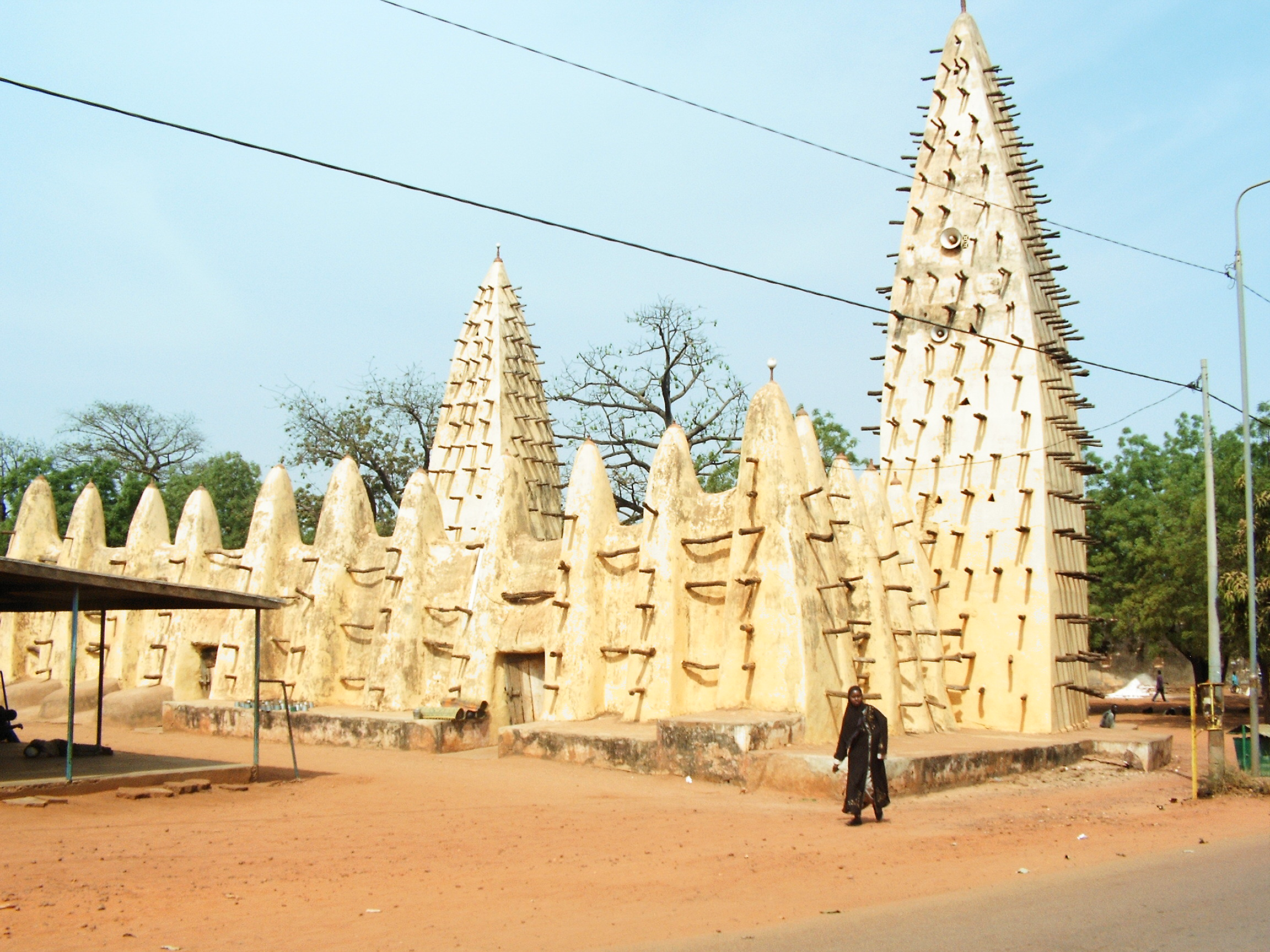 Grand Mosque in Bobo-Dioulasso, Burkina Faso picture taken by author